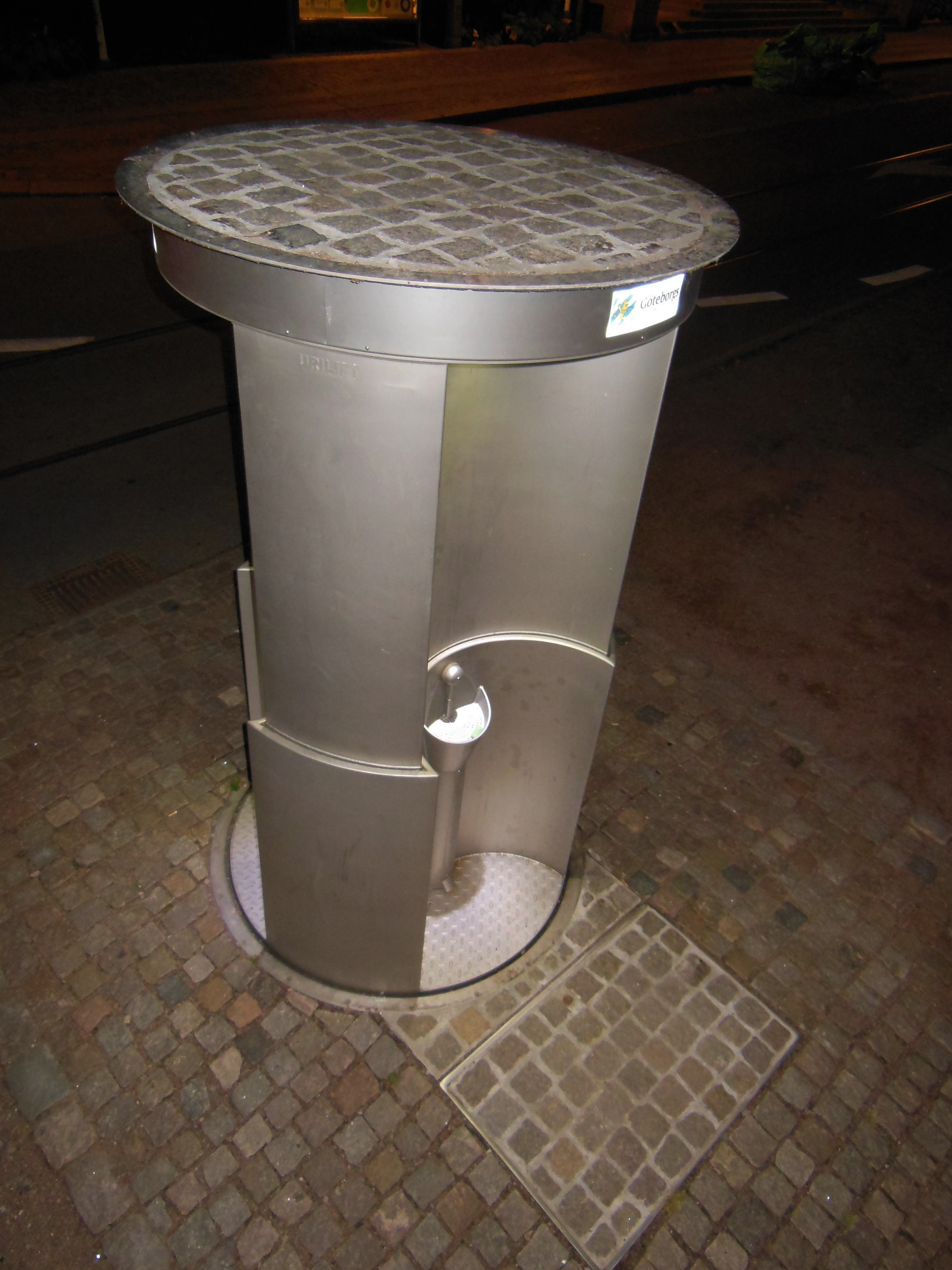 Urilift by Valand in Gothenburg, Sweden.